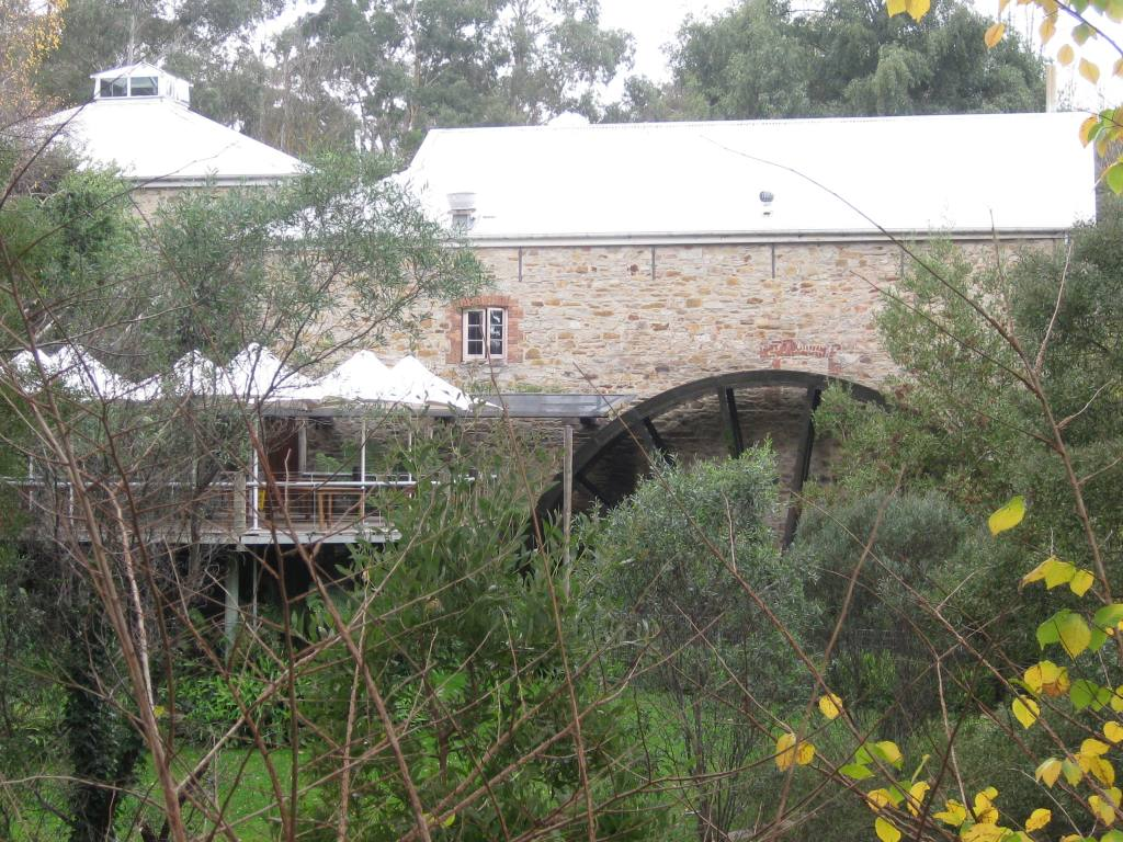 Dunn's Mill, Bridgewater, South Australia. Now used as a restaurant and winery.